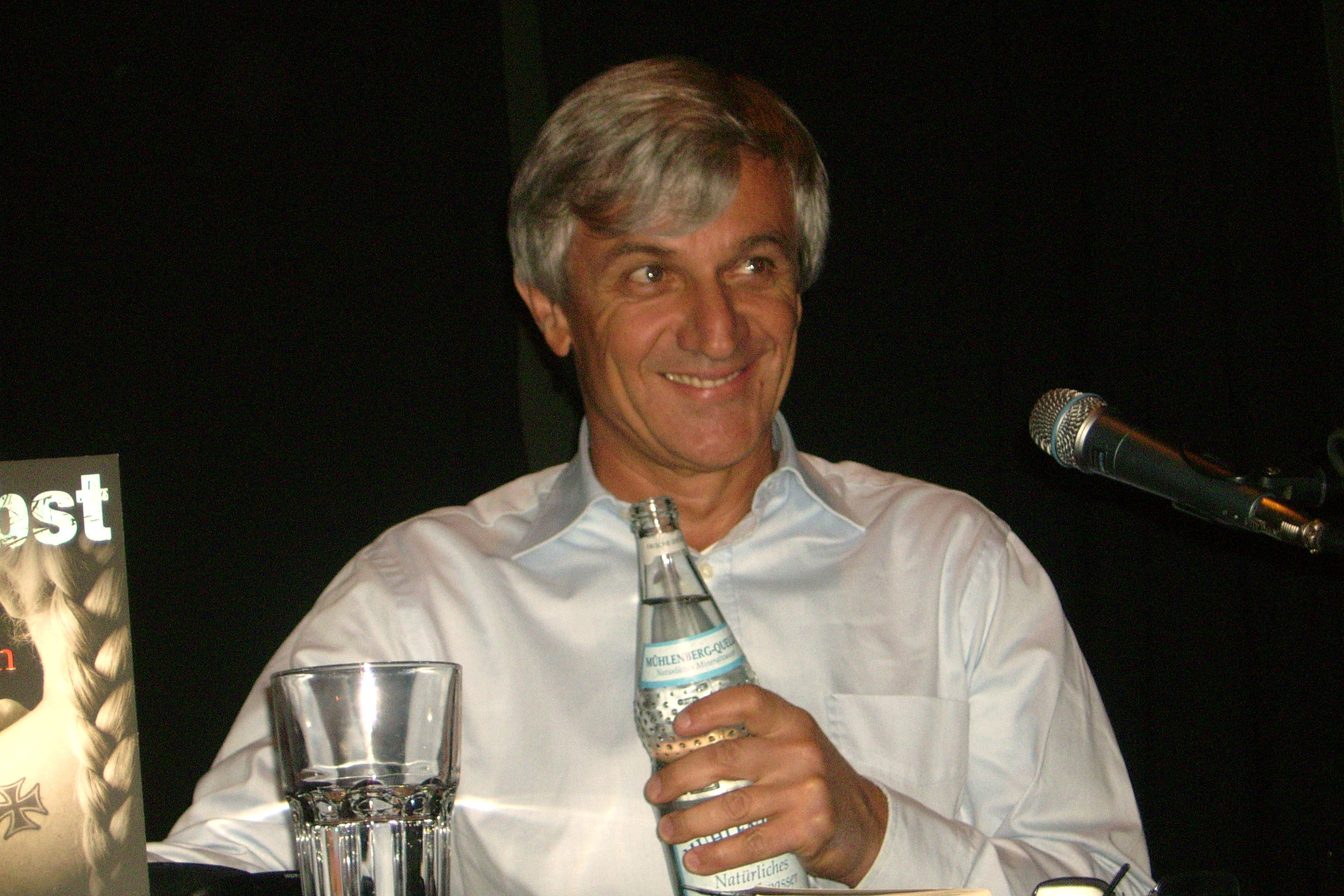 German writer Peter Probst